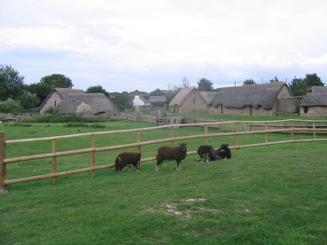 Cosmeston Reconstructed Medieval Village. This reconstructed medieval village is at Cosmeston Lakes, south of Penarth, and even the sheep are carefully chosen to fit in.